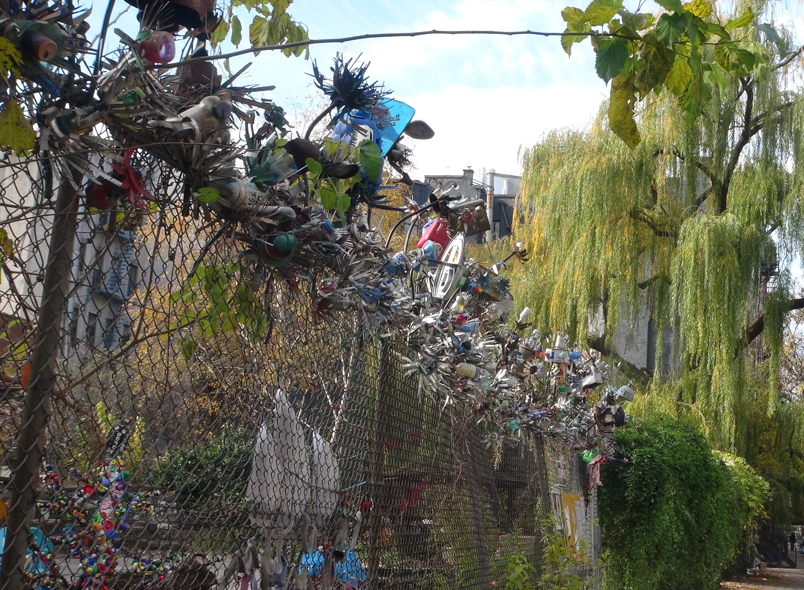 Photo of La Plaza Cultural in the Lower East Side. Cropped.